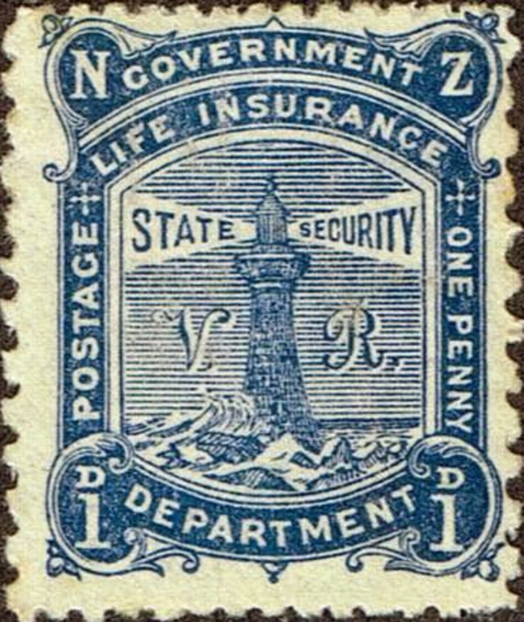 New Zealand Life Insurance 1891 VR